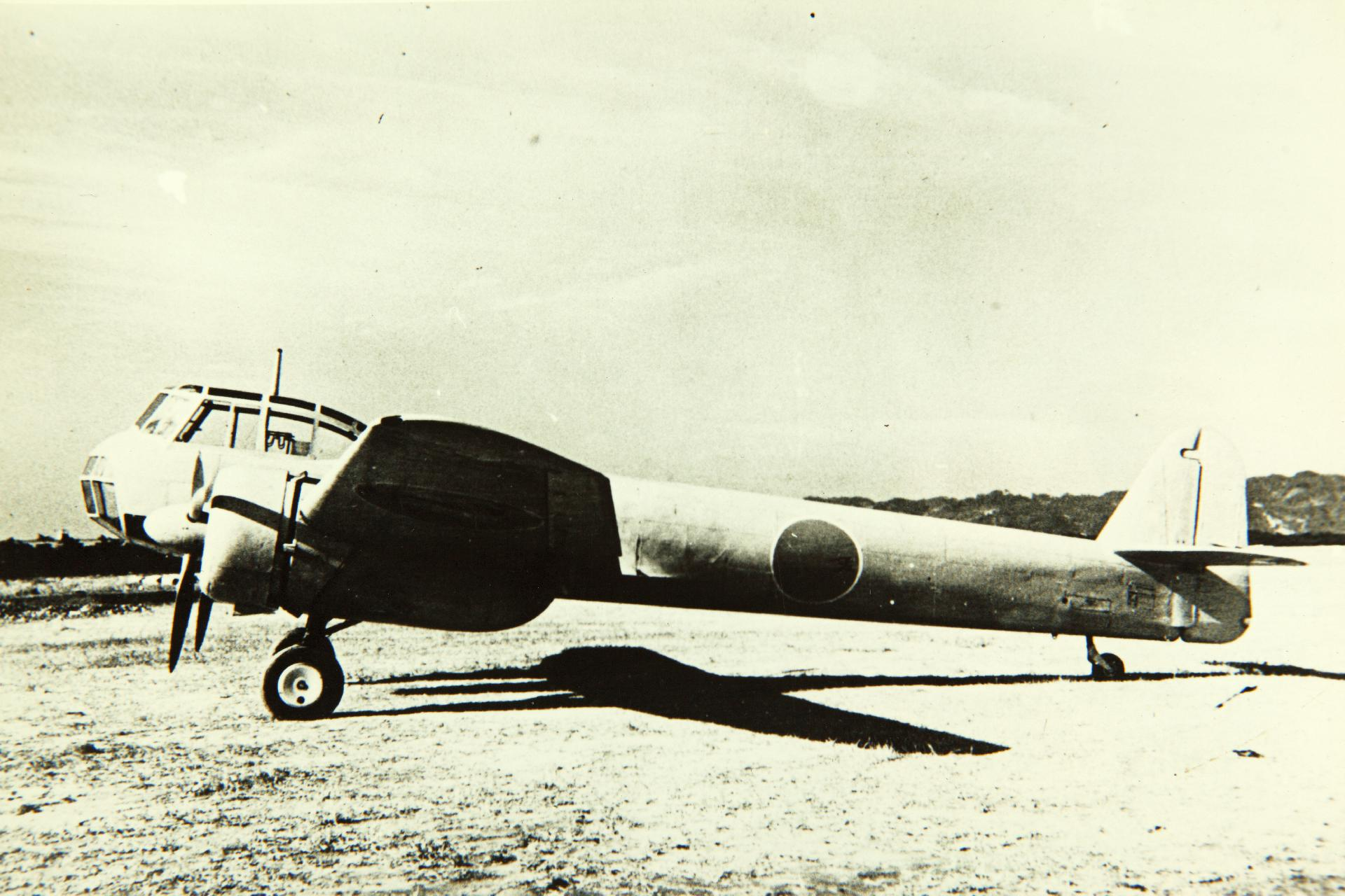 Kyushu Q1W Tokai maritime reconnaissance aircraft